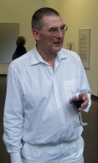 Portrait of Johannes Grützke, german painter.